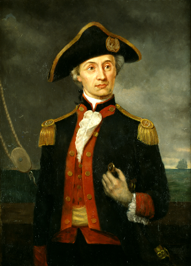 George Matthews based this image of naval hero John Paul Jones, painted about 1890, on a portrait by Charles Willson Peale. The older painting is part of the large Peale collection at Independence National Historical Park in Philadelphia. In the painting, Jones wears the French Order of Military Merit, presented to him by Louis XVI in 1780. Peale is thought to have executed his life study around 1781, following Jones’s triumphal return from France.